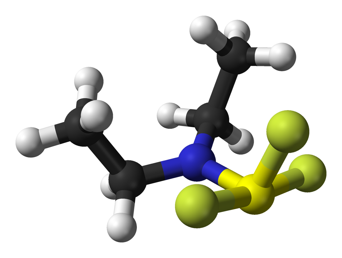 Ball-and-stick model of the diethylaminosulfur trifluoride (DAST) molecule, C4H10F3NS. Structure calculated in Spartan '04 Student Edition using Hartree-Fock/6-31G*. Image generated in Accelrys DS Visualizer. For further information on the structure of this molecule, see Thomas M. Klapötke and Axel Schulz (May 1997). "The structure of diethylaminosulfur trifluoride (DAST) — a combined theoretical and nuclear magnetic resonance study". Journal of Fluorine Chemistry 82 (2): 181-183.